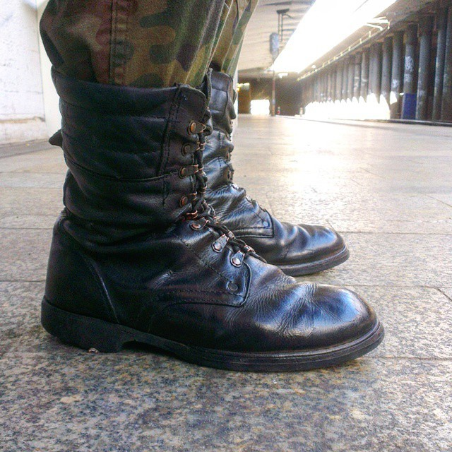 Polish military boots